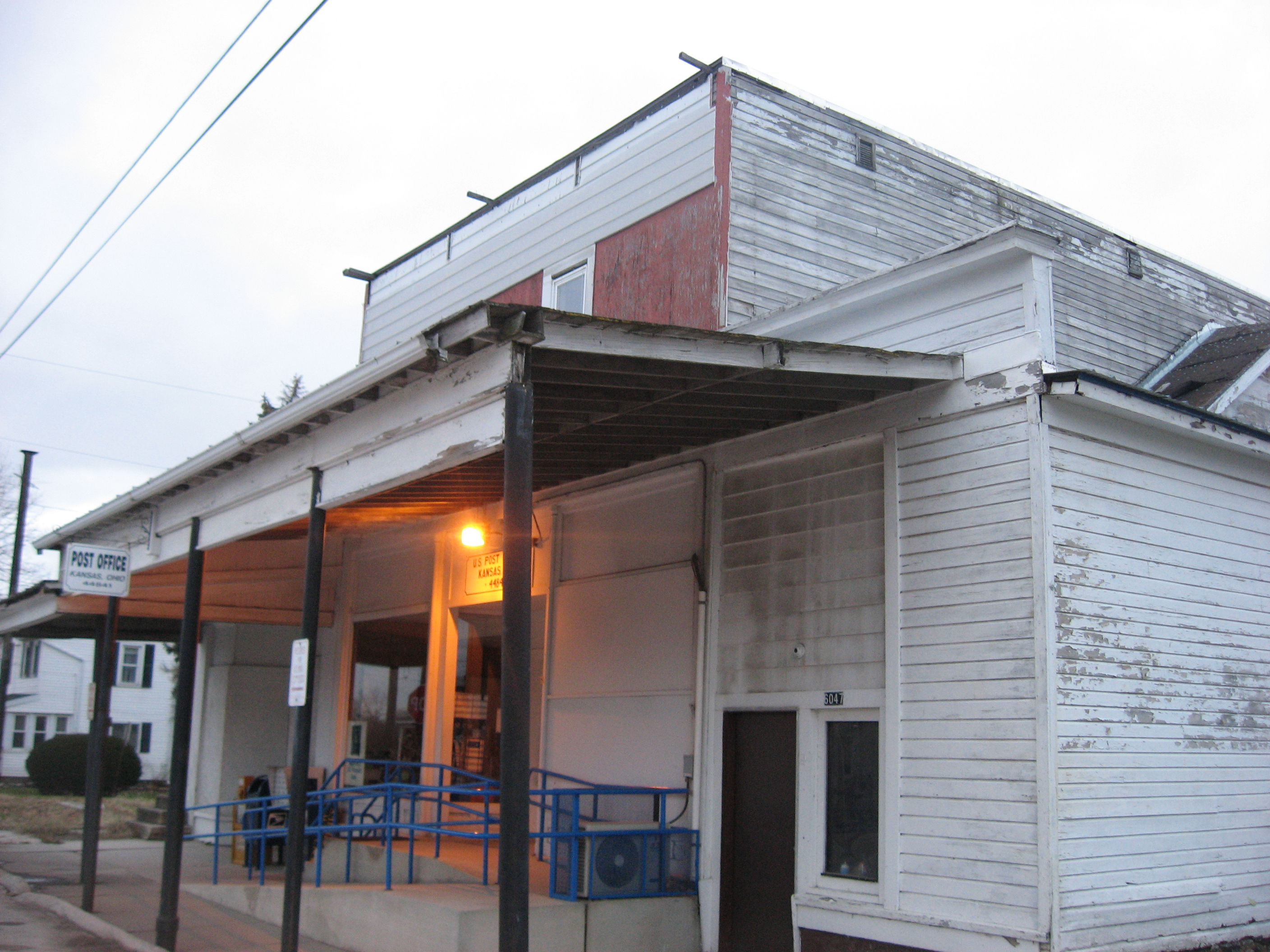 Front of the post office in Kansas, Ohio, United States, located at 6047 Main Street.